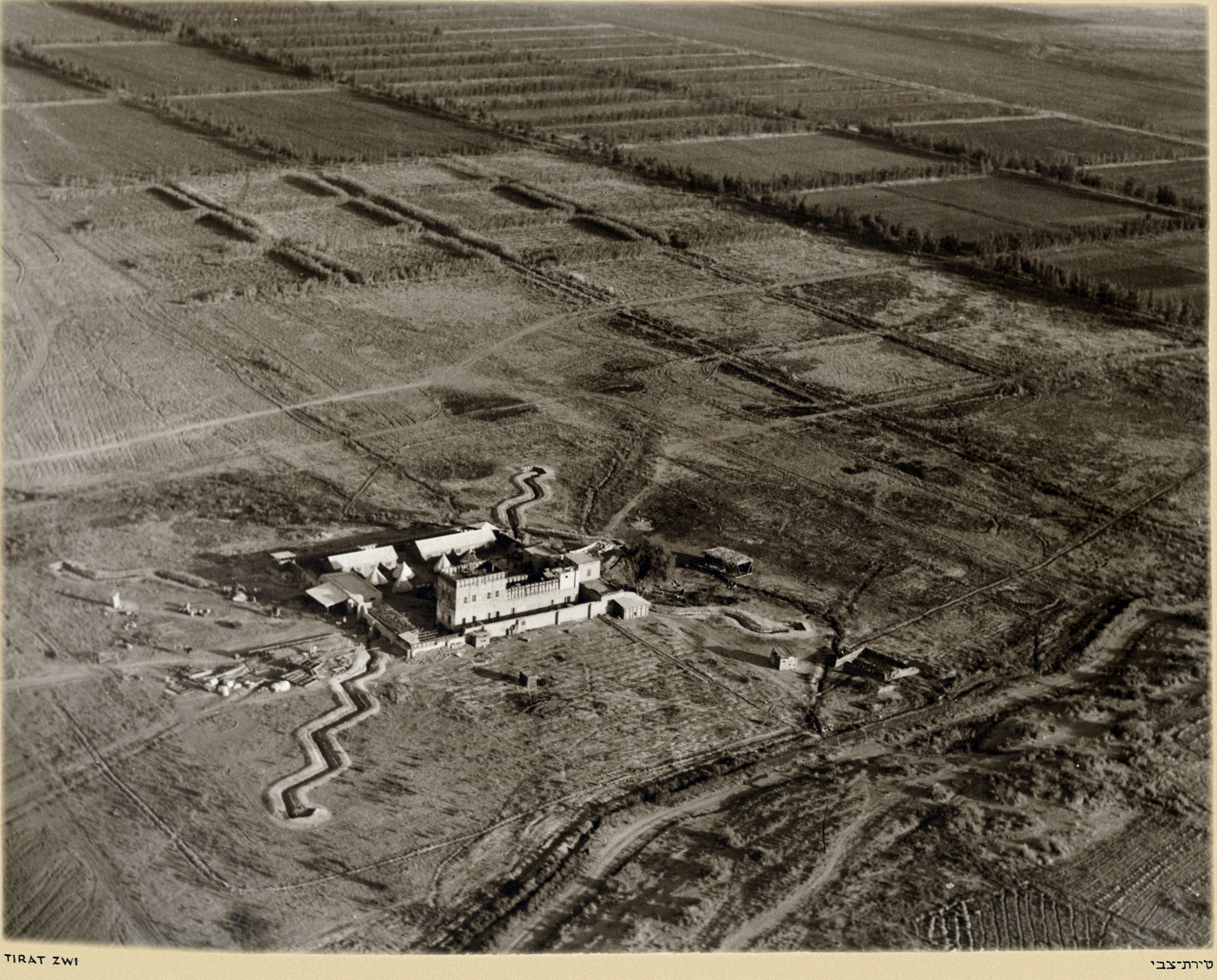 Z. Kluger. Erez Israel from the air - 1937-38